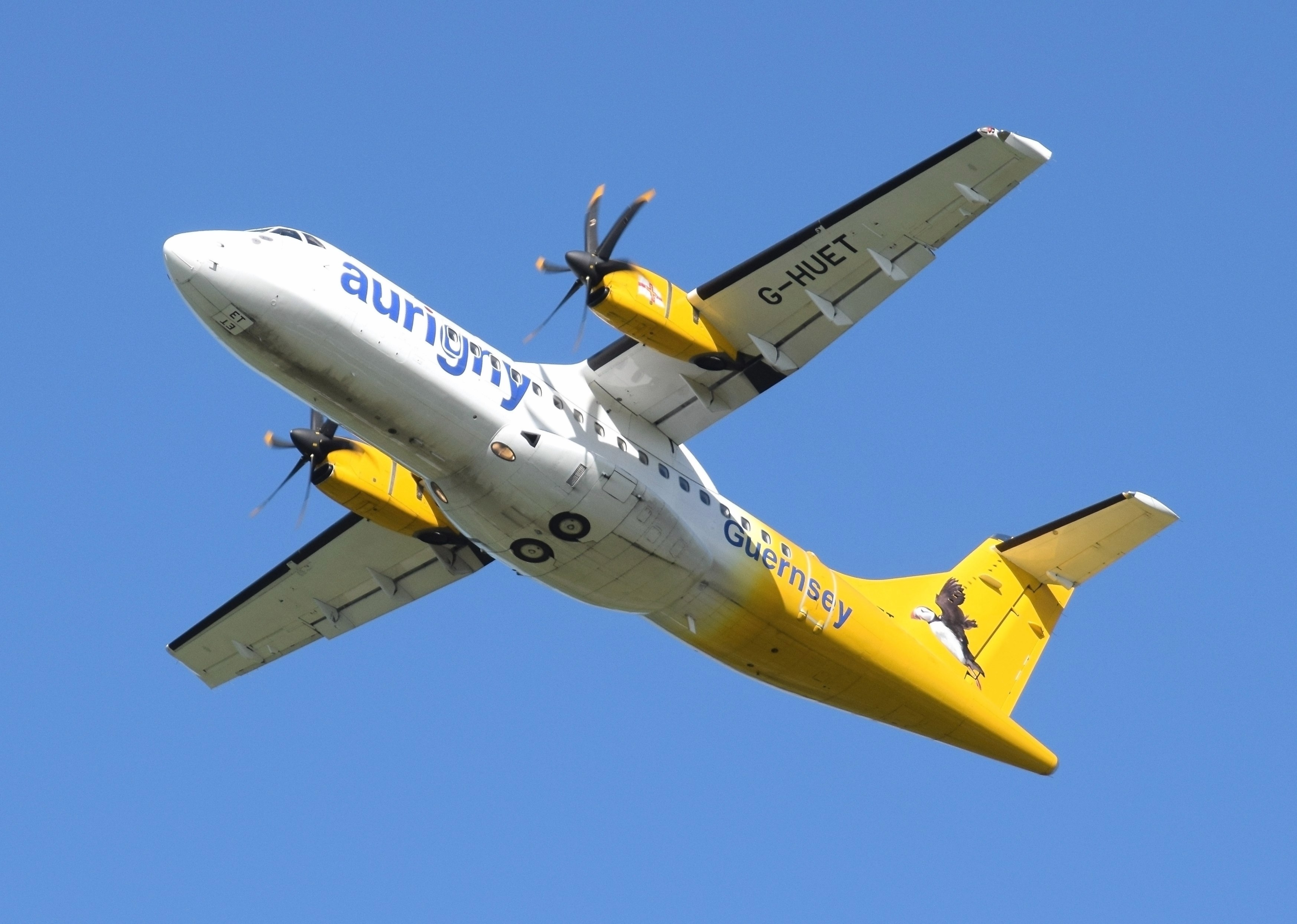 ATR 42-500 (G-HUET) of Aurigny Air Services takes off from Bristol Airport, England. Aircraft built 1999.